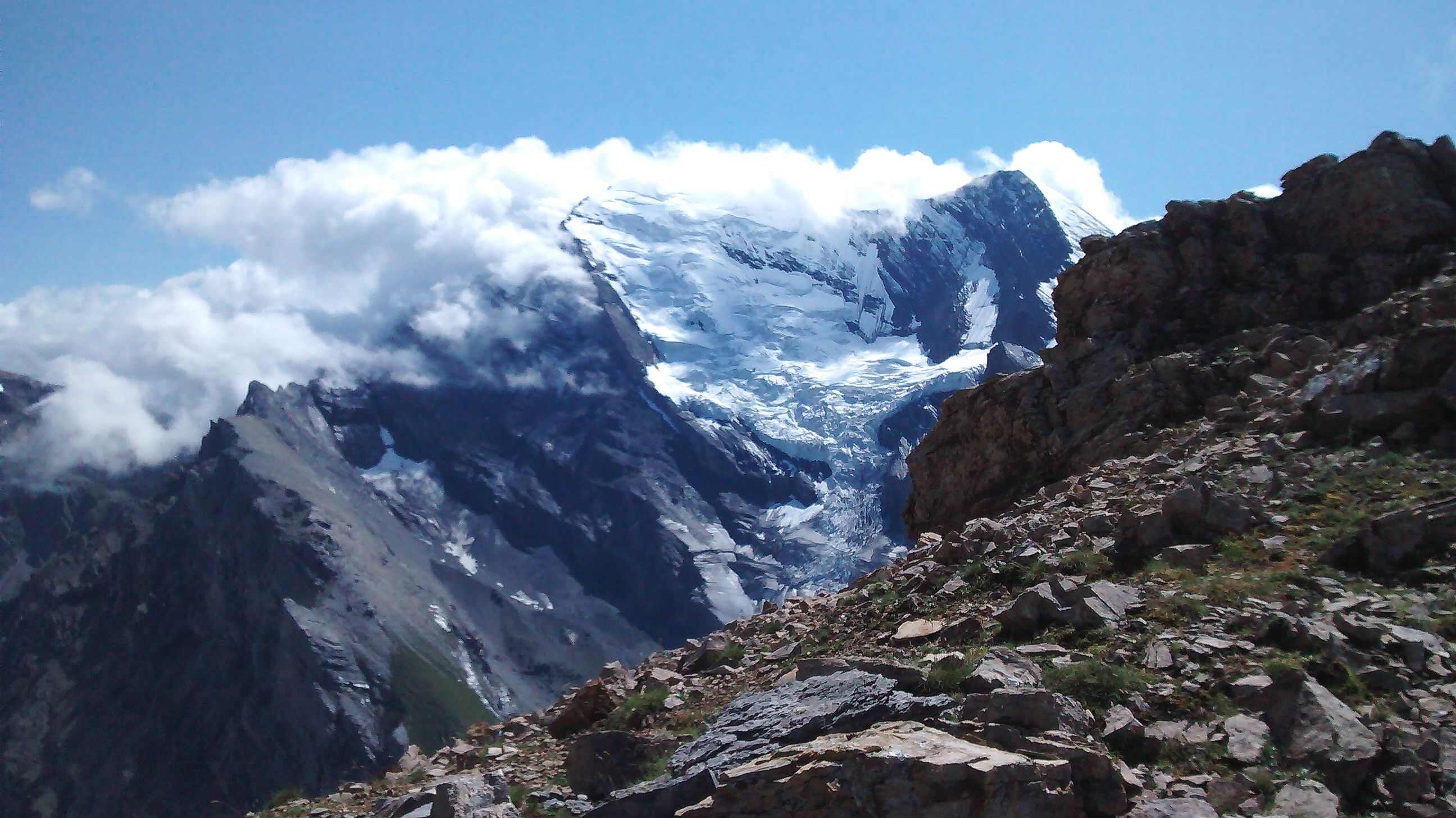 Balmhorn Northface